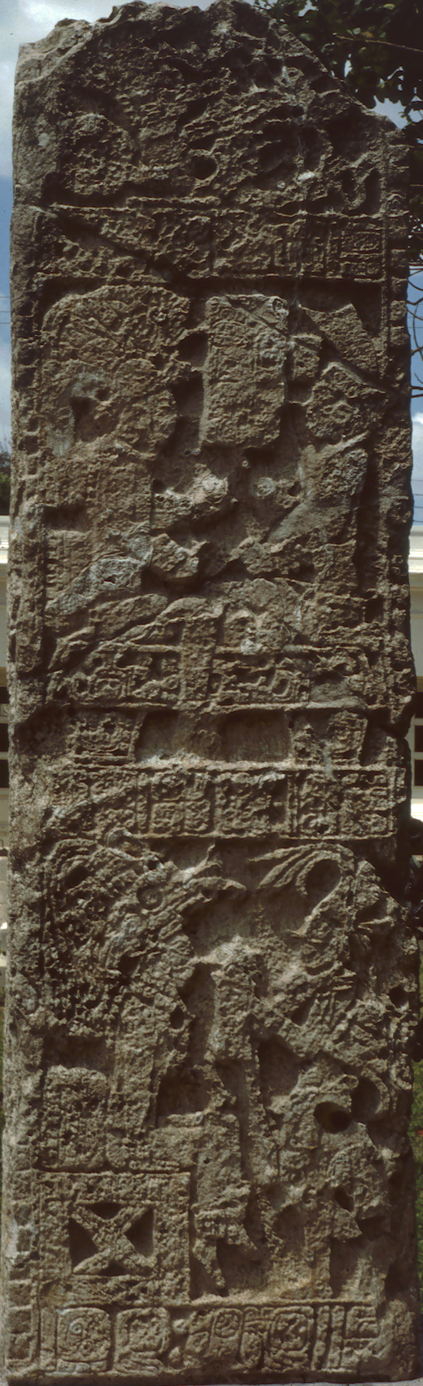 Oxkintoc, Yucatan, Mexico: Stela 3.